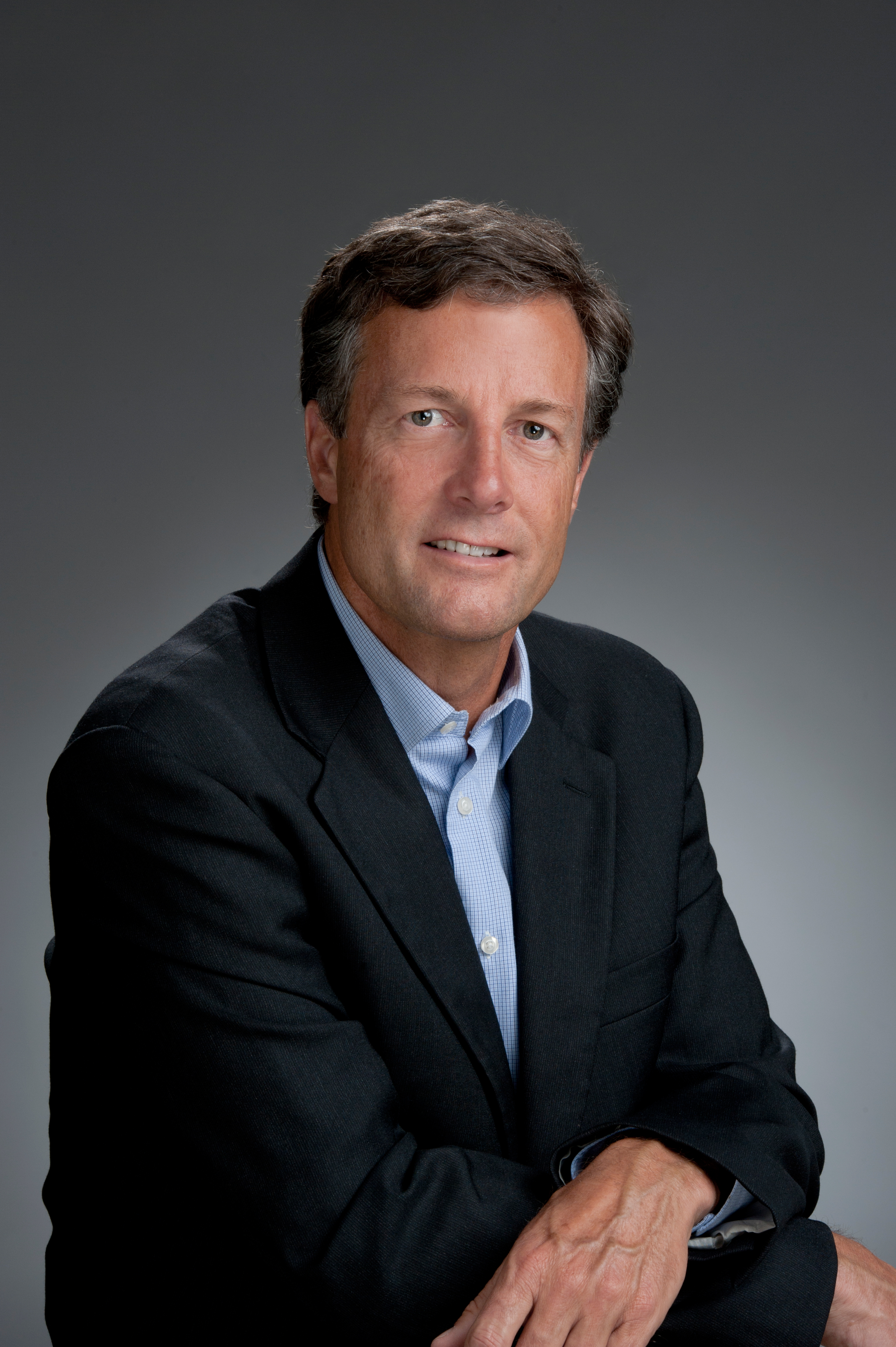 Mark Jaccard in 2010